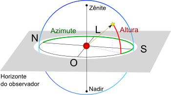 Horizontal coordinate System. This vector image was created with Inkscape.